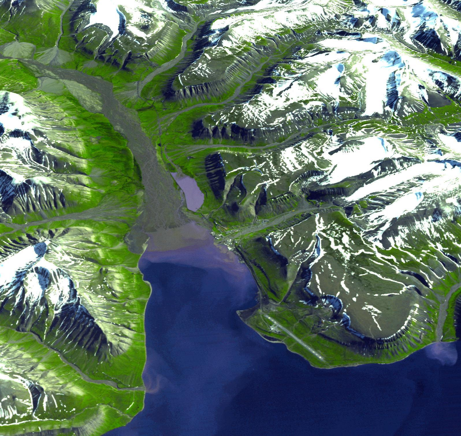 Longyearbyen, Svalbard, Norway